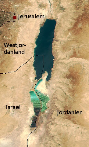 This true-color image of the Dead Sea was taken on September 10, 2000, by the MODerate-resolution Imaging Spectroradiometer (MODIS) flying aboard NASA's Terra spacecraft. Image courtesy Jacques Descloitres, MODIS Land Group, NASA GSFC